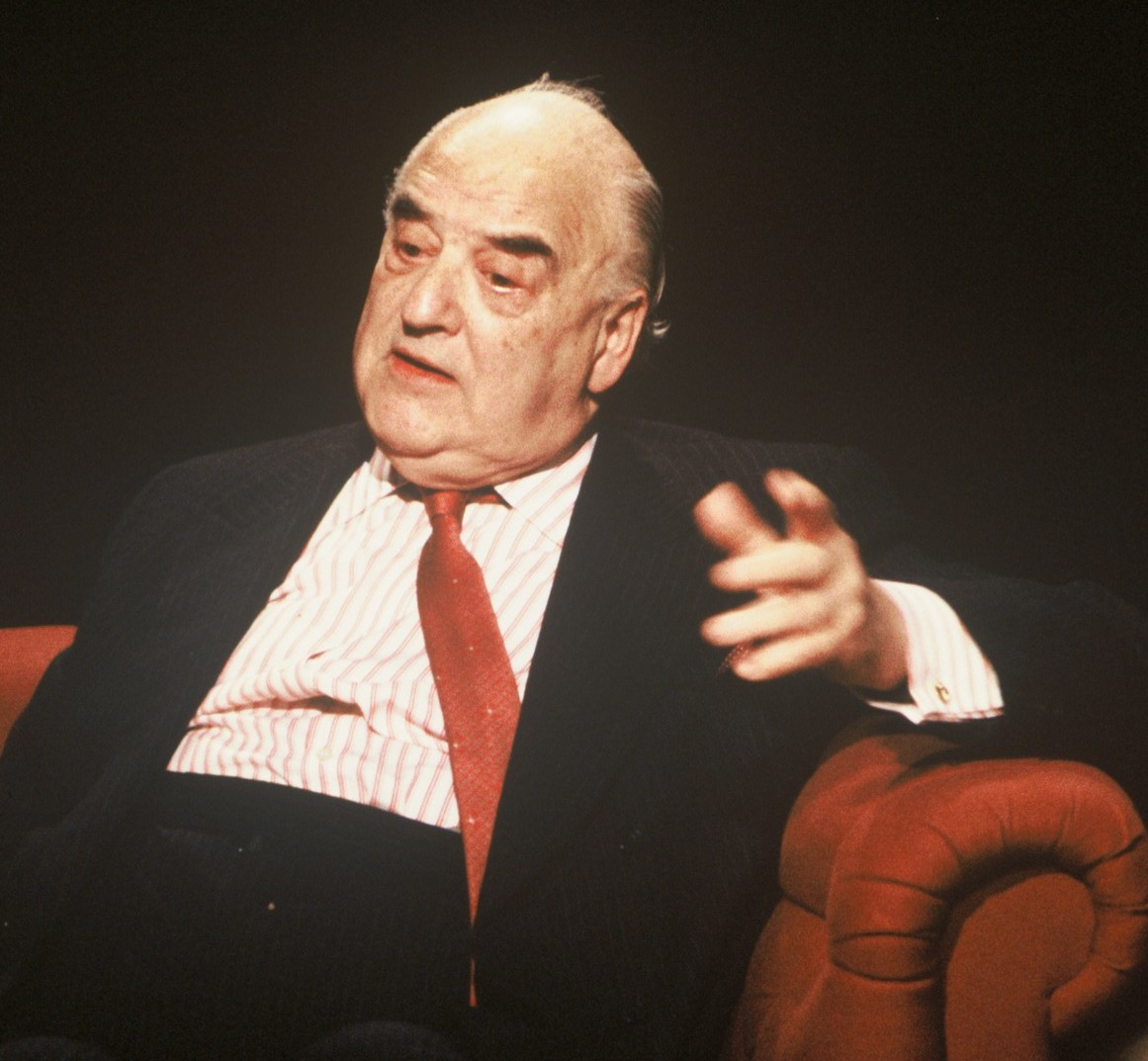 Lord Weidenfeld appearing on After Dark on 2 March 1991. Other guests included Edward Heath and Adnan Khashoggi. More here.